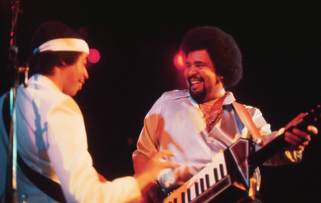 Stanley Clarke & George Duke Clarke/Duke Project, Vredenburg, Utrecht, The Netherlands